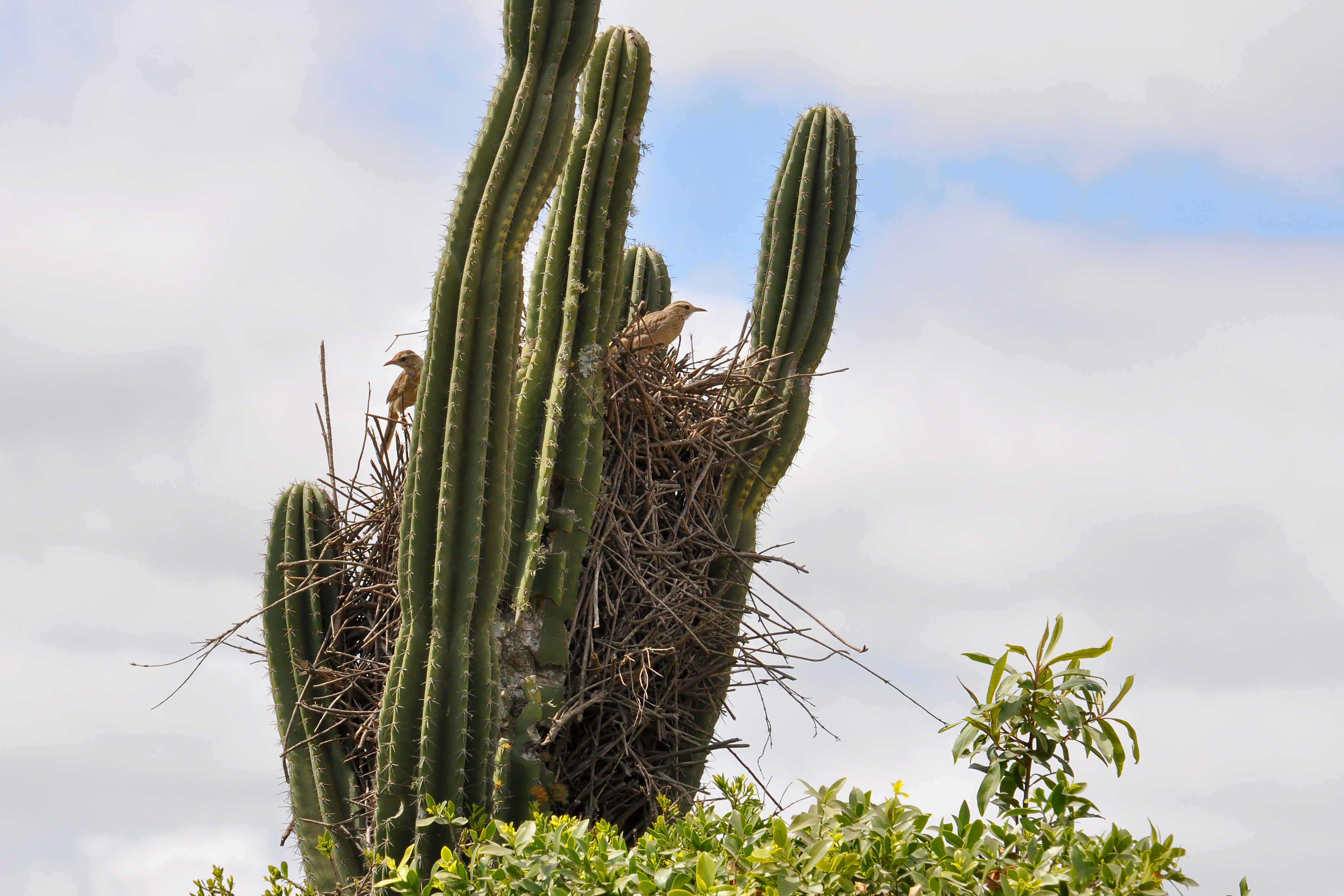 Anumbius annumbi couple and nest photographed in Rio Grande do Sul, Brazil, in October 2010.